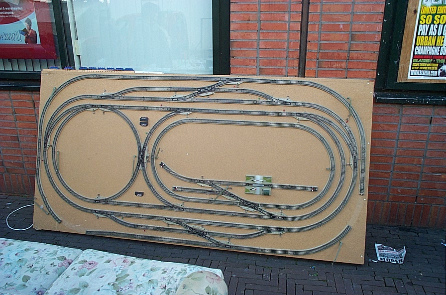 Model railroad layout, made of Märklin tracks. Seen on a flea market in Amsterdam, Netherlands.